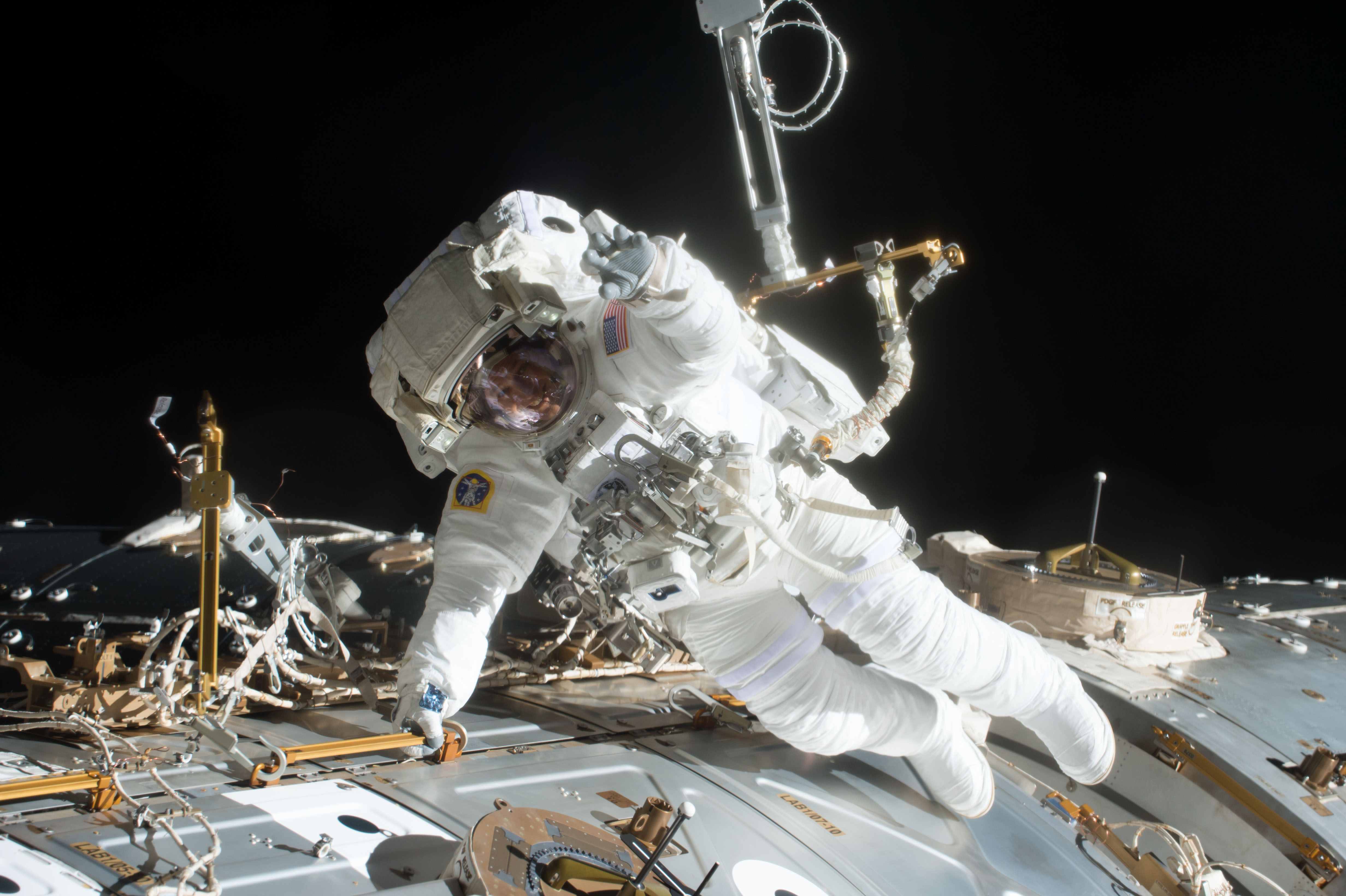 Air Force colonel and NASA astronaut Jack Fischer works outside the U.S. Destiny laboratory module to attach wireless antennas during the 201st spacewalk in support of International Space Station maintenance and assembly. This was a short and unplanned, contingency spacewalk whose primary task was the removal and replacement of a failed computer data relay box that controls the functionality of important station components such as solar arrays and radiators.